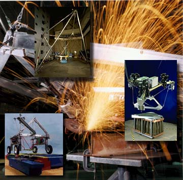 ROBOCRANE® PROJECT Large Scale Manufacturing using Cable Control This page is always under construction! Please check back in the near future to find additional information about the NIST RoboCrane. The Intelligent Systems Division is actively seeking partners for cooperative research in large scale manufacturing technology and standards development. Please contact the project manager, Roger Bostelman, if you are interested in further information.